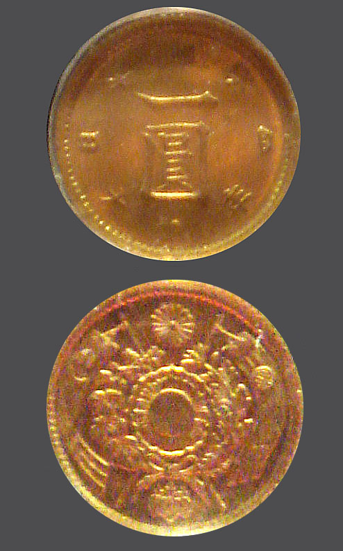 Early_one_yen_coin_front_and_reverse.